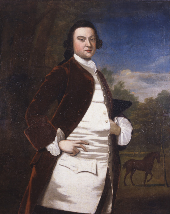 William Byrd III, the wealthy heir of Westover plantation, stands for an oil portrait by eighteenth-century artist John Hesselius. The artist includes a horse in the background of the portrait. Byrd imported horses from England and gambled on high stakes horse races. According to the 1813 will drawn up by Byrd's widow, Mary Willing Byrd, this painting was hung "in the passage" at Westover.